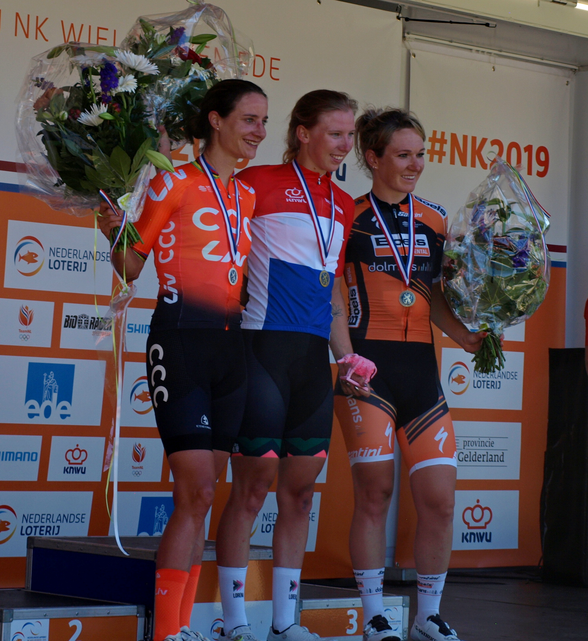 Lorena Wiebes (centre), Marianne Vos (silver medal, left), Amy Pieters (bronze, right).